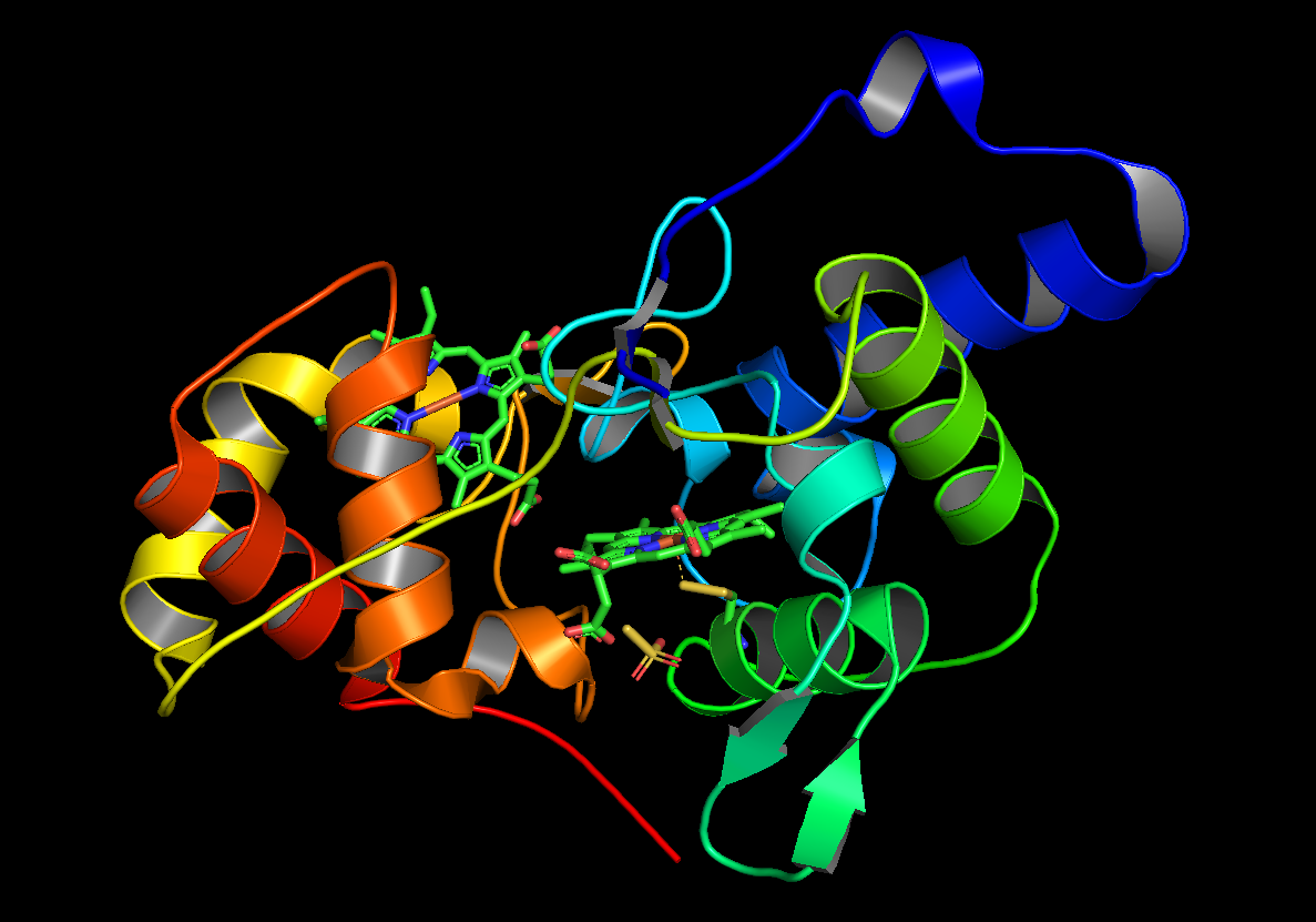 Structure of Thiosulfate Dehydrogenase, made in the PyMol software corresponding to RCSB code 4V2K. Both iron hemes and thiosulfate substrate are present.